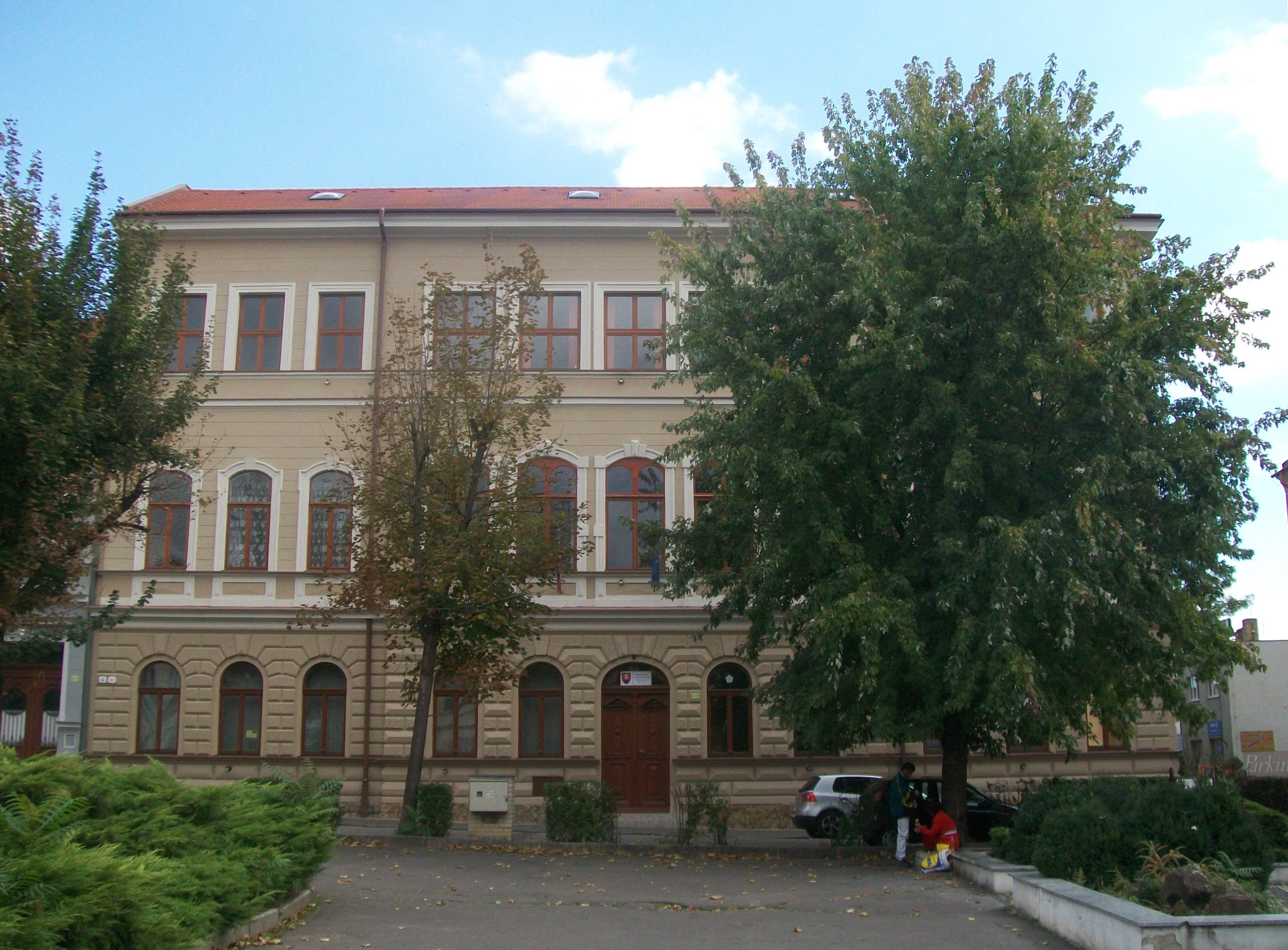 Kubínyi square 6 - Elementary School and Kindergarten in a historic building, which is a historical monument.